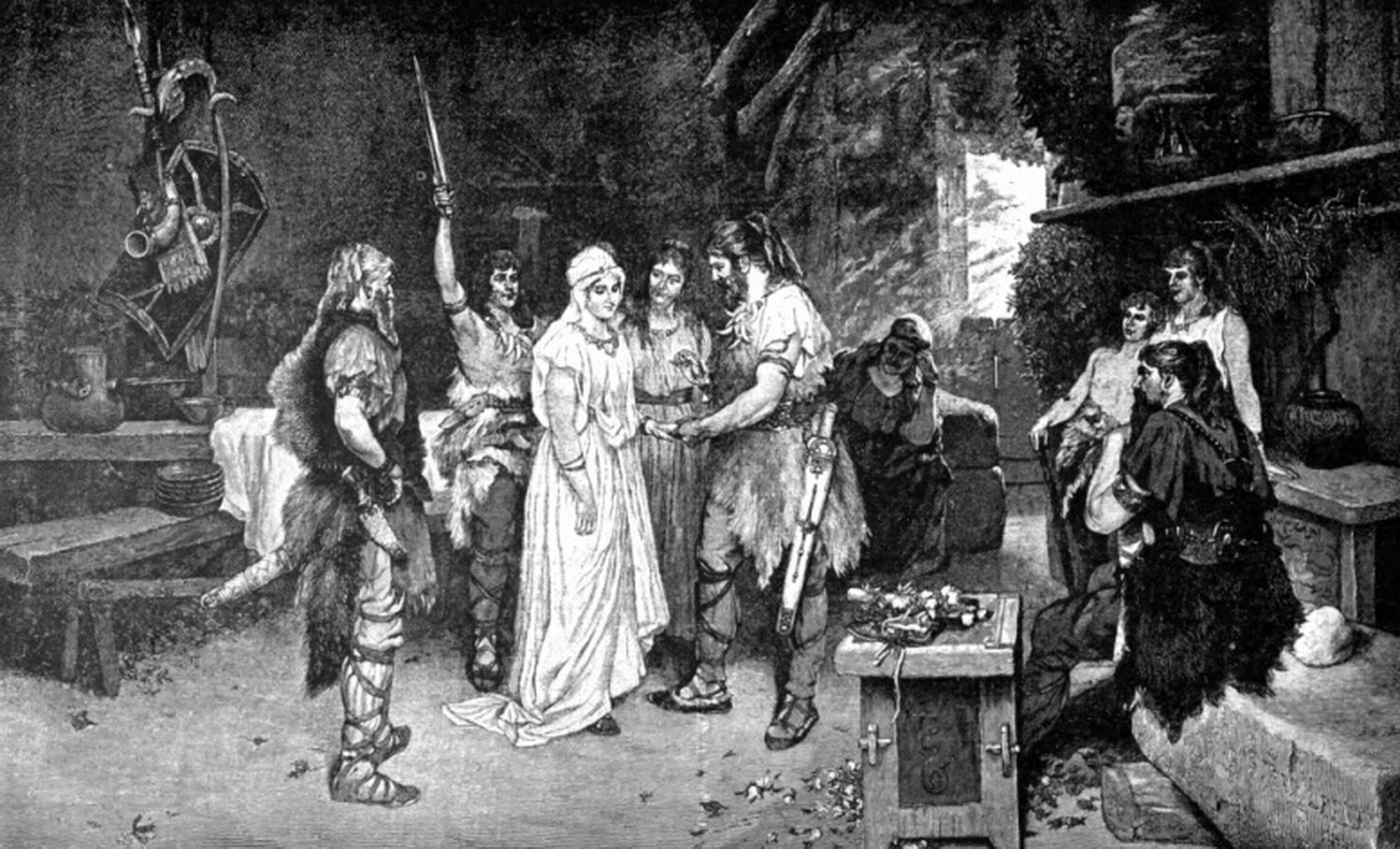 The number is a page number in the book, "Woman Triumphant"; the story of her struggles for freedom, education, and political rights. Dedicated to all noble-minded women by an appreciative member of the other sex by Author: Rudolf Cronau. (1919). The name of the image is the caption name. Follow the link from the image to the full book